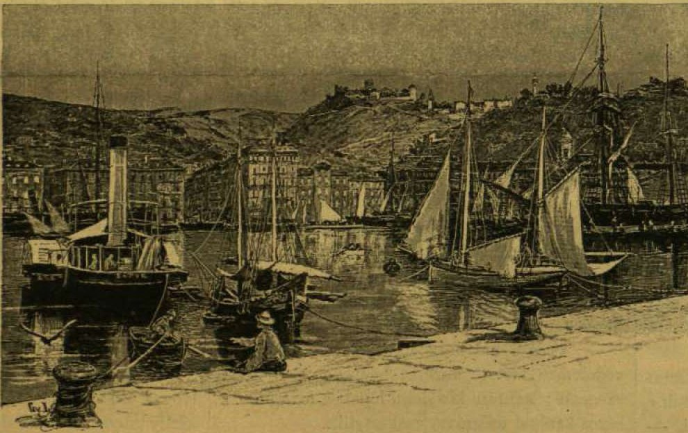 Fiume.